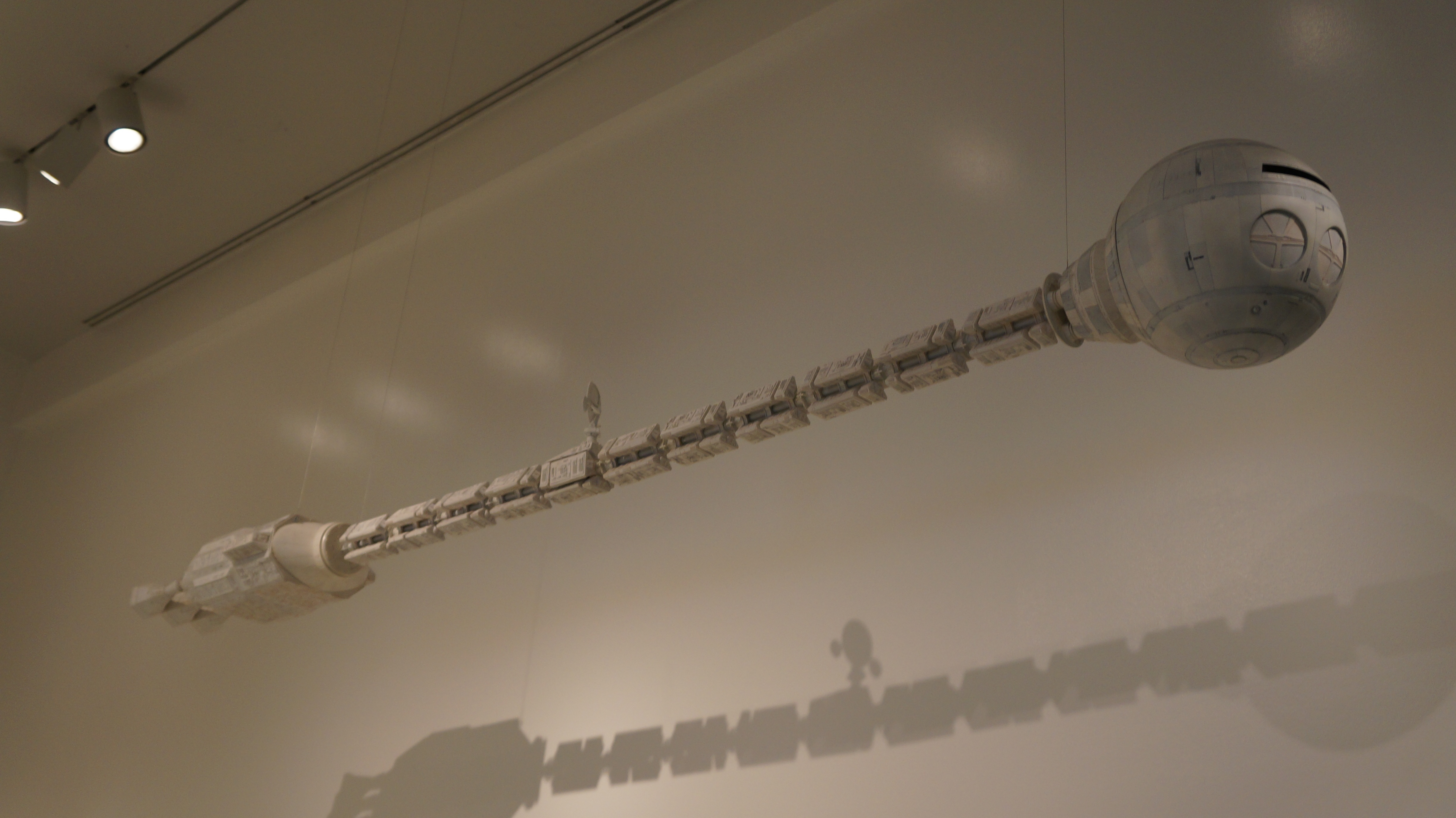 Reproduction of the Discovery One spaceship from the 1968 film 2001: A Space Odyssey by Stanley Kubrick. Displayed at Stanley Kubrick: The Exhibit, Los Angeles County Museum of Art.